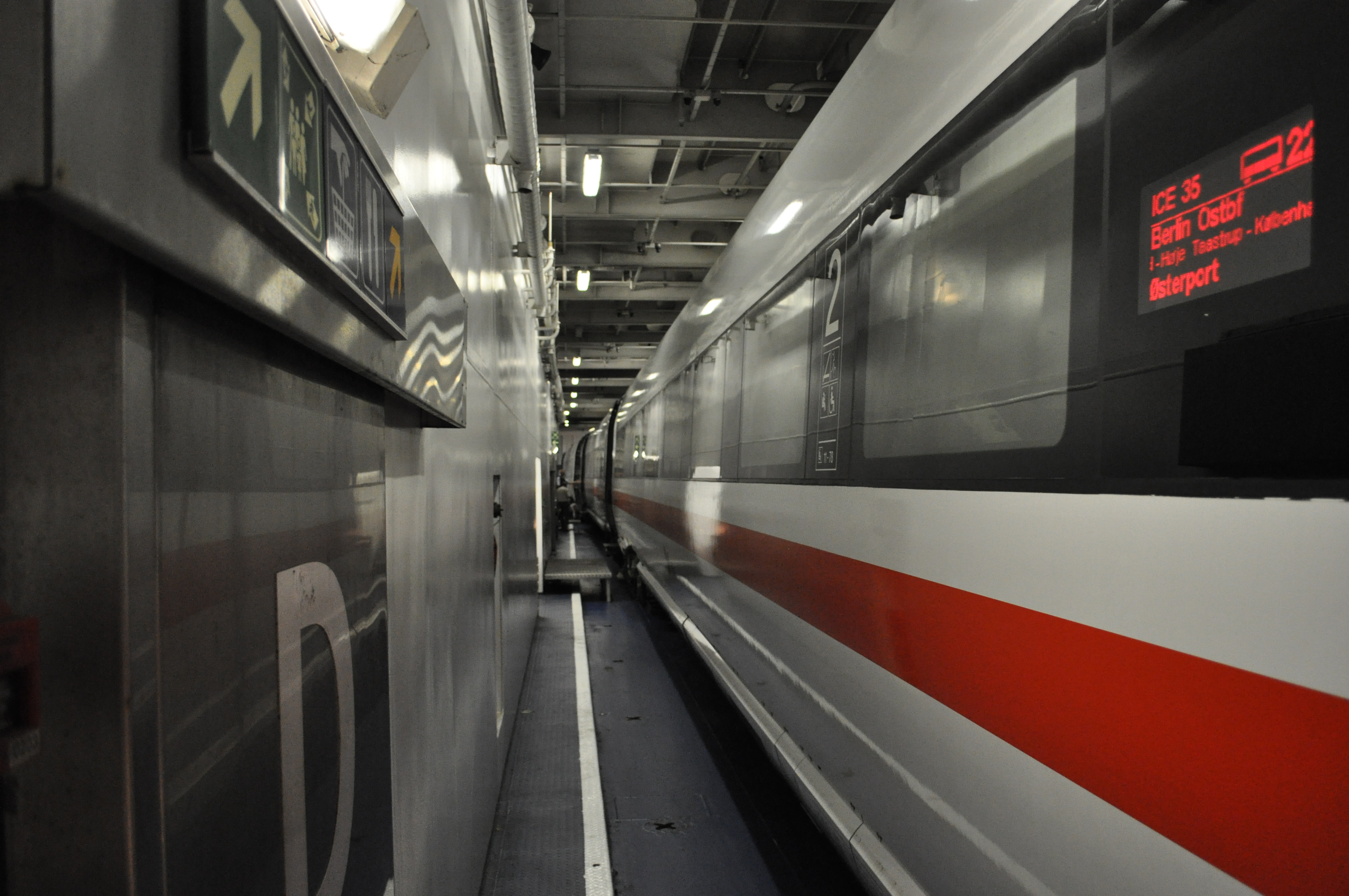 An ICE-TD train on the Ferry 'Prins Richard' going from Puttgarden to Roedby .